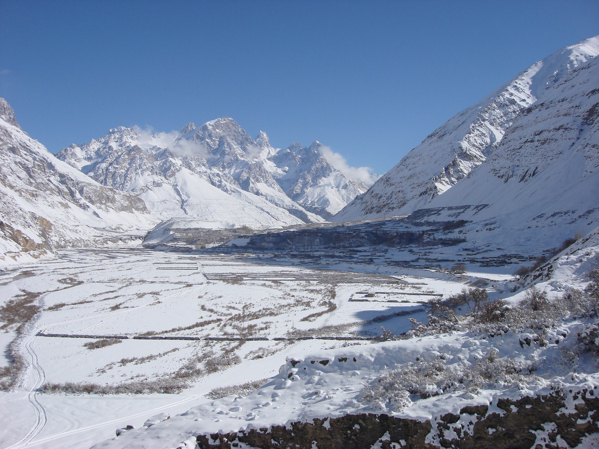 Picture taken in Shimshal valley on 12 December 2008 during snow